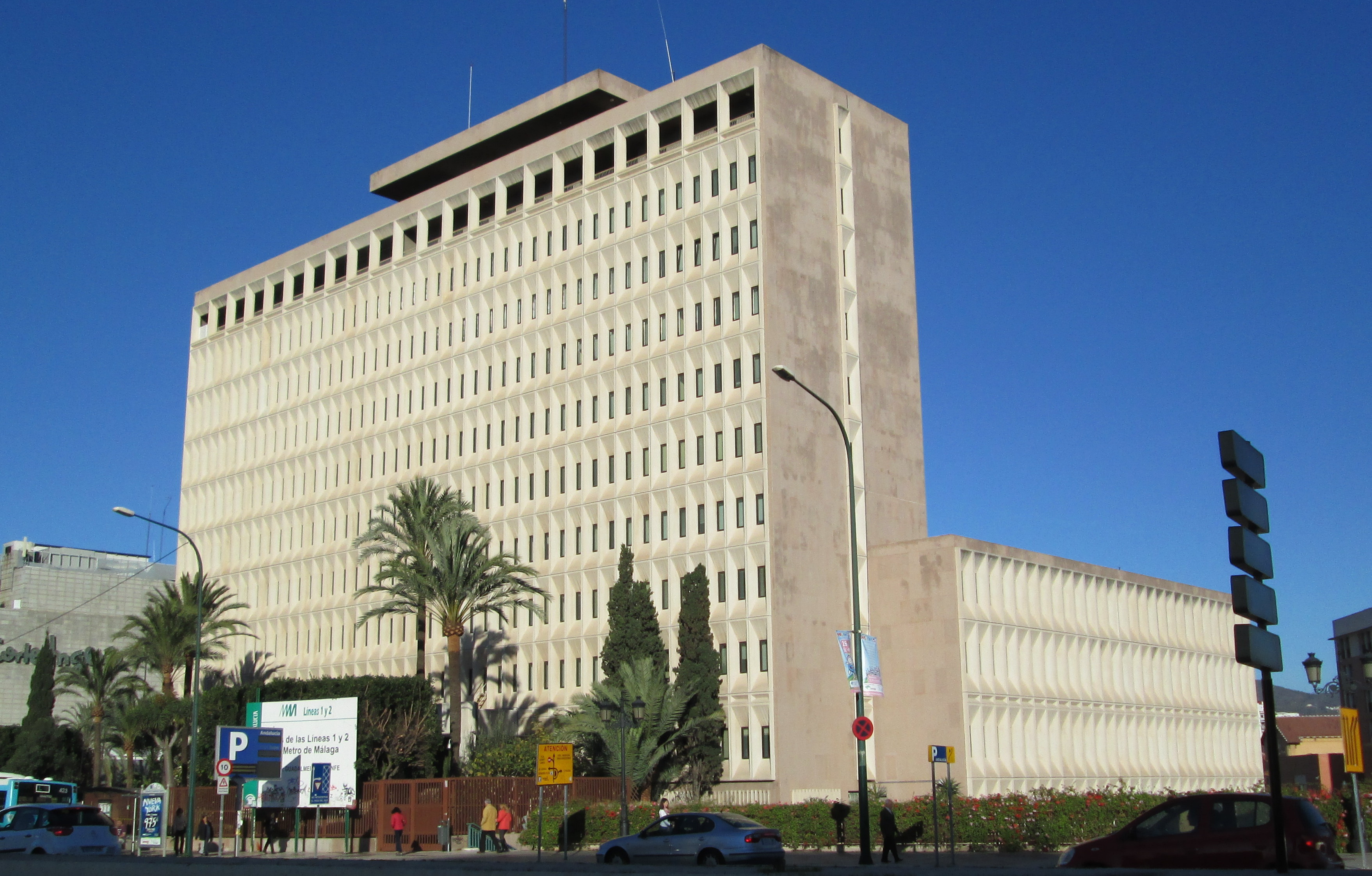 Delegación de Hacienda, Málaga